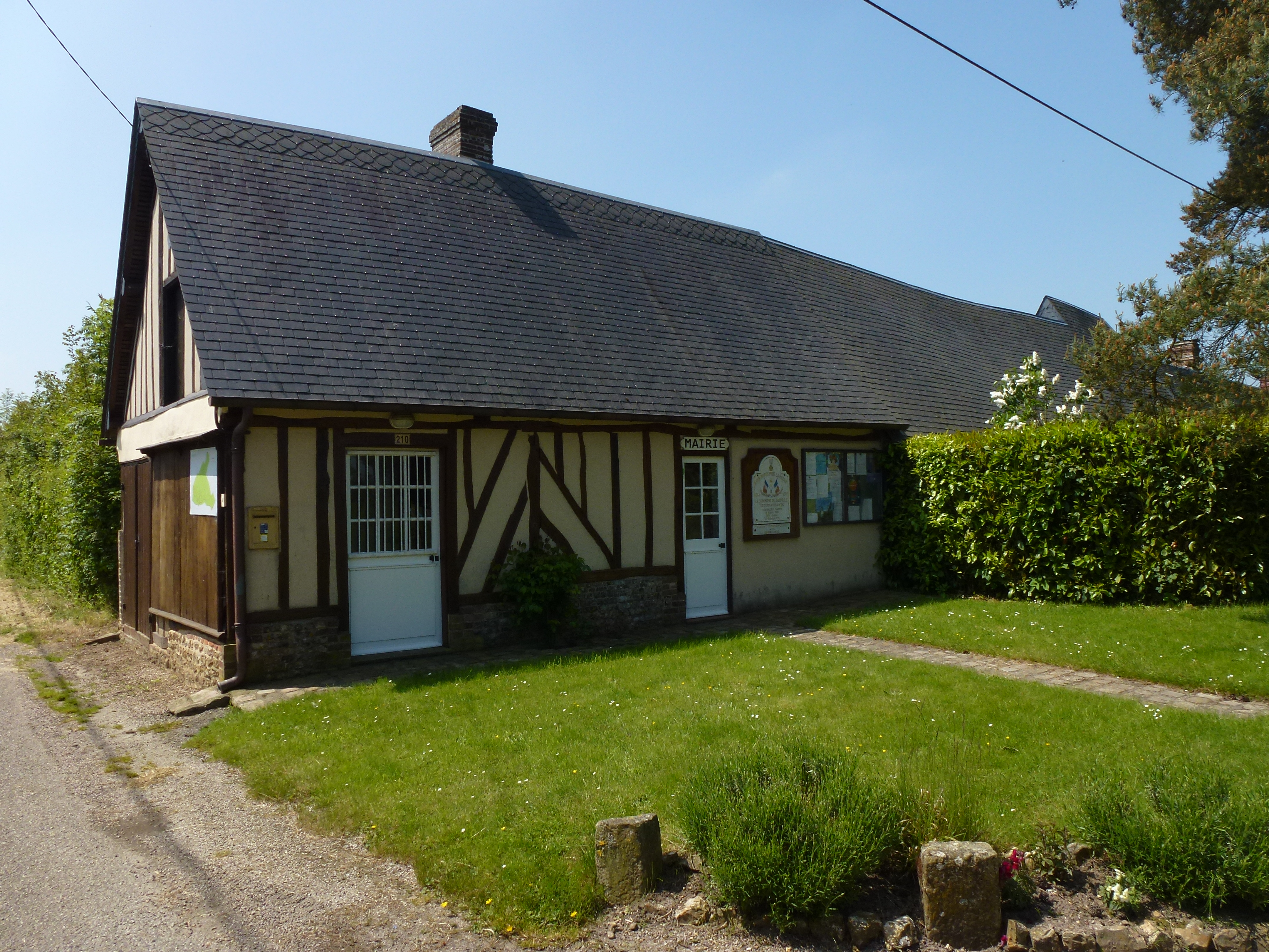 Barville (Eure, Fr) mairie